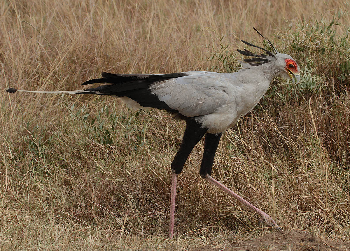 A Secretarybird in Masai Mara, Kenya.